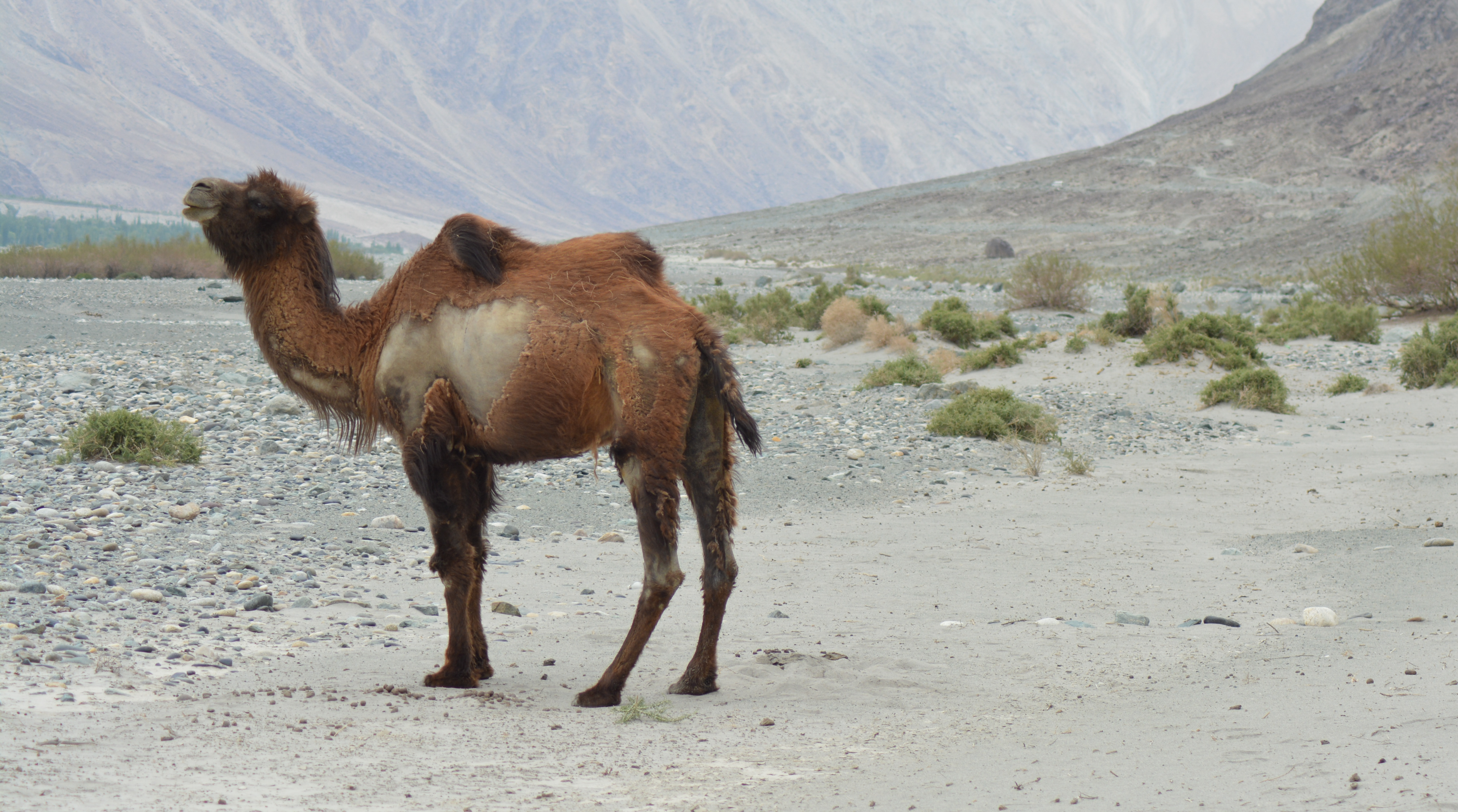 Rare sighting of a feral Bactrian camel at desert valley of Diskit, Kashmir , India